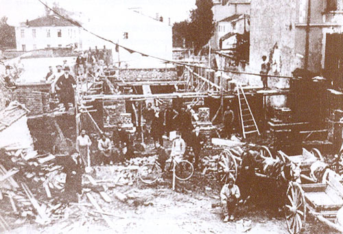 The Manaki Brothers Studion after being bombed.